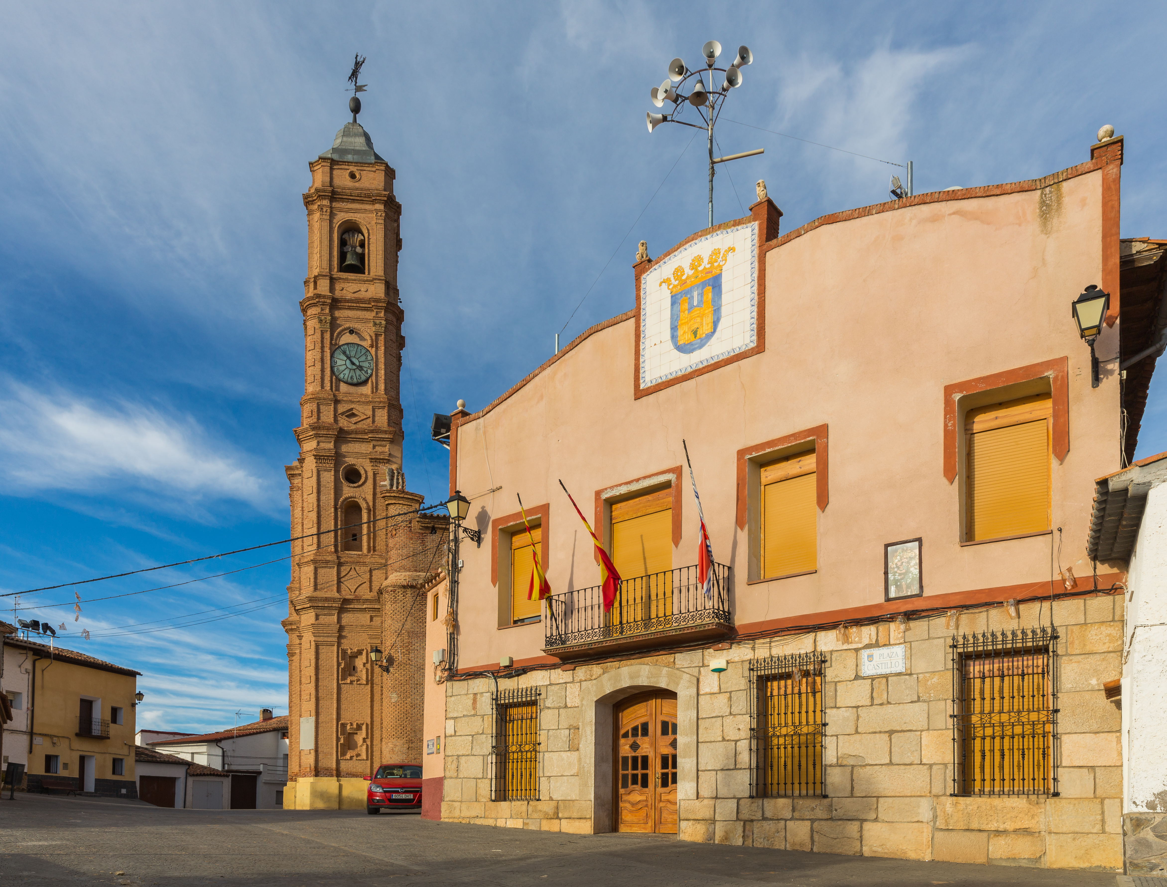 Town hall, Munébrega, Zaragoza, Spain